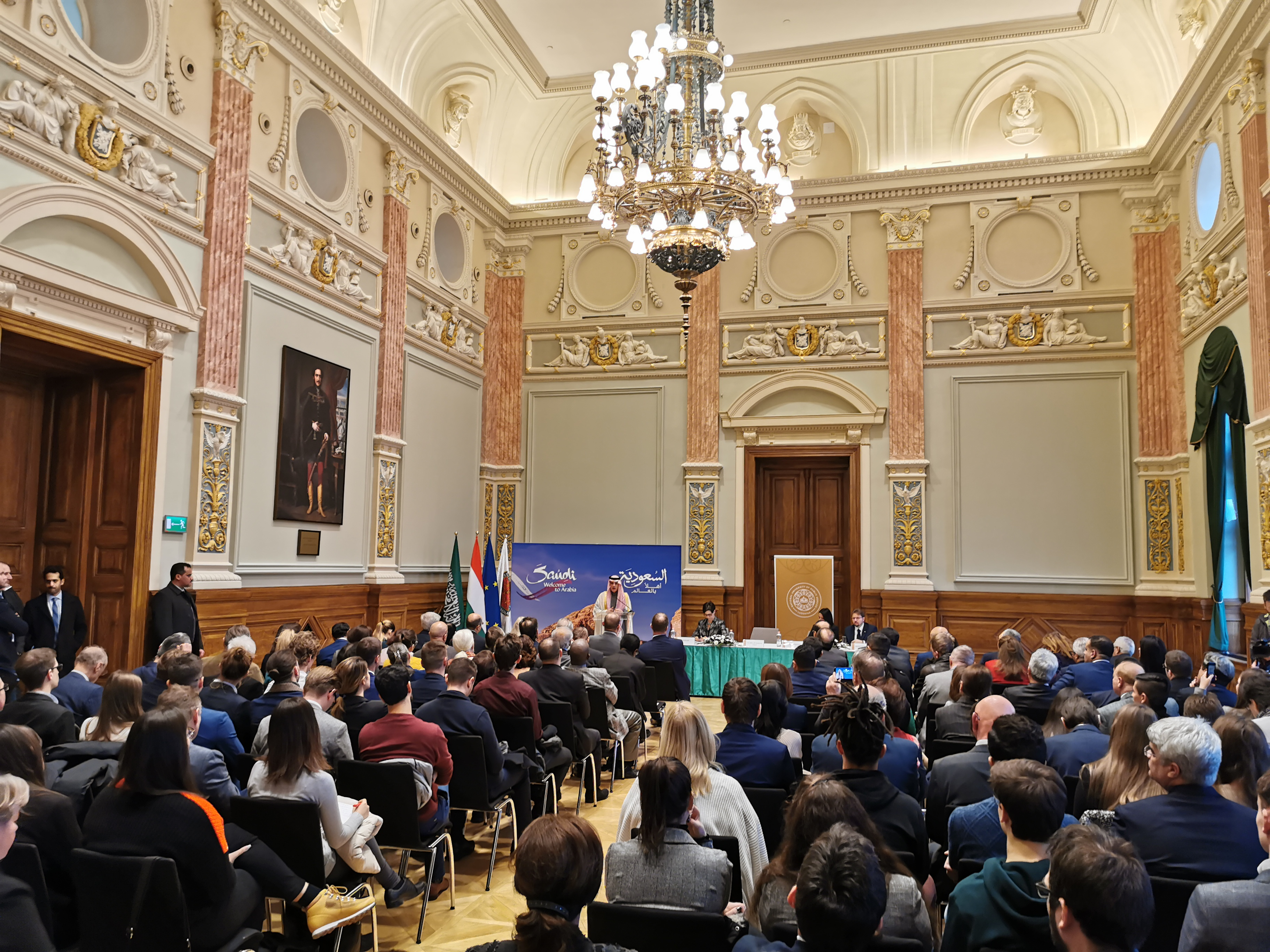 Adel al-Jubeir hold a lecture - Saudi Foreign Policy and Reforms of Visions 2030 at Közszolgálati Egyetem, Central Europe. Taken on Friday, the 24th of January, 2020.